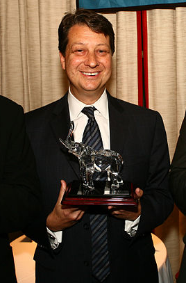 Albert Berger in 2008 P.T. Barnum awards.